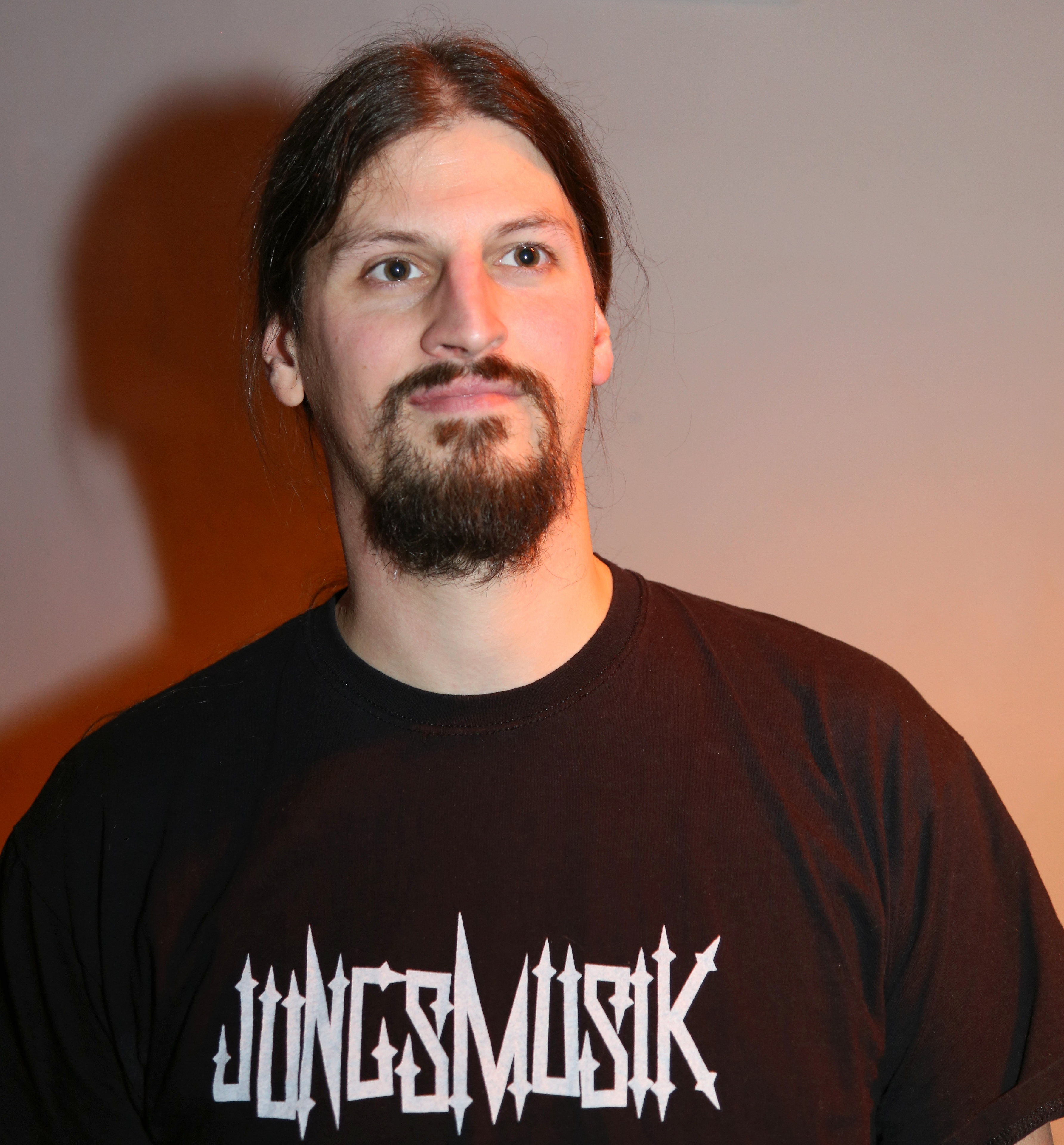 German author Michael Goehre aka Micha-El Goehre at the Jugendkulturzentrum „Scheune“ (Youth Cultural Center „Barn“) in Ibbenbüren, Kreis Steinfurt, North Rhine-Westphalia, Germany.